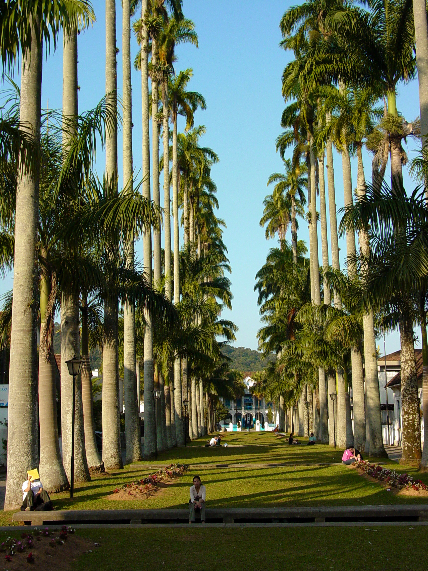 Park scene, Joinville, Brazil. July 2006.